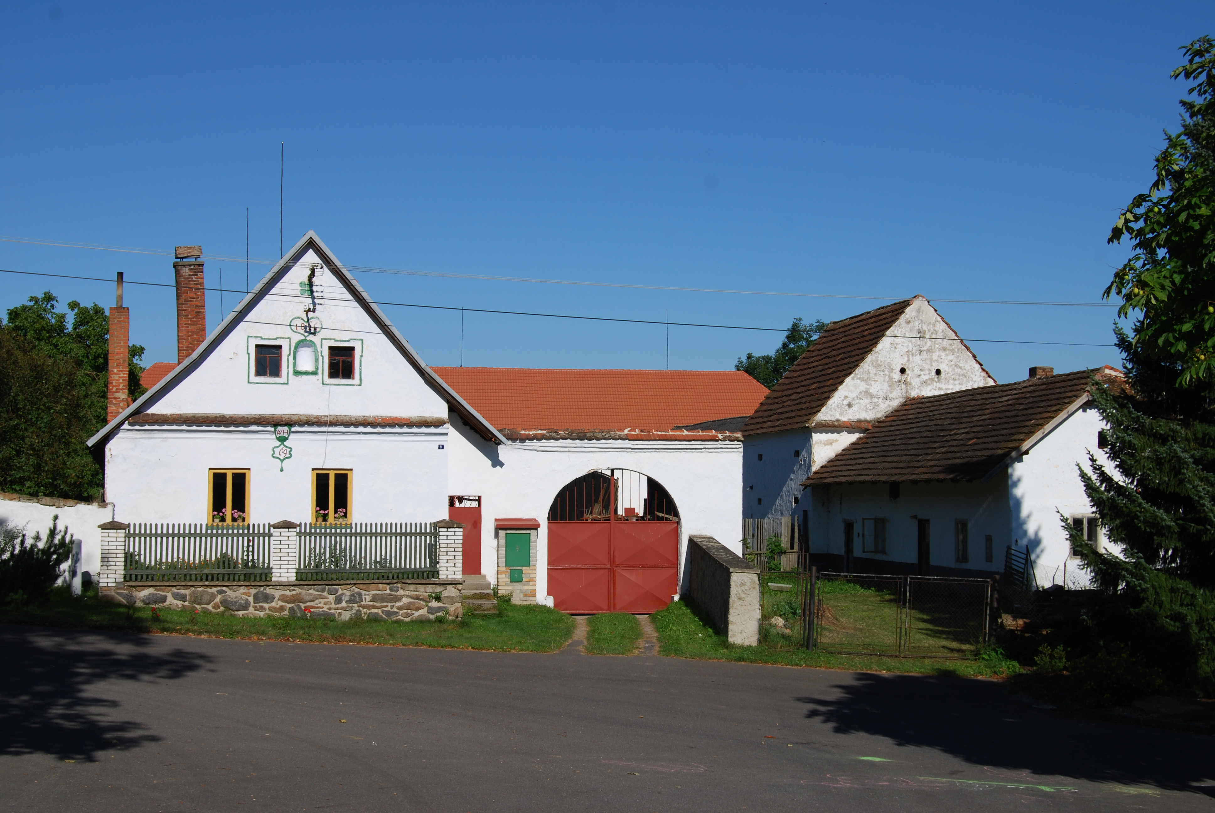 Stehlovice village in Pisek District, Czech Republic.